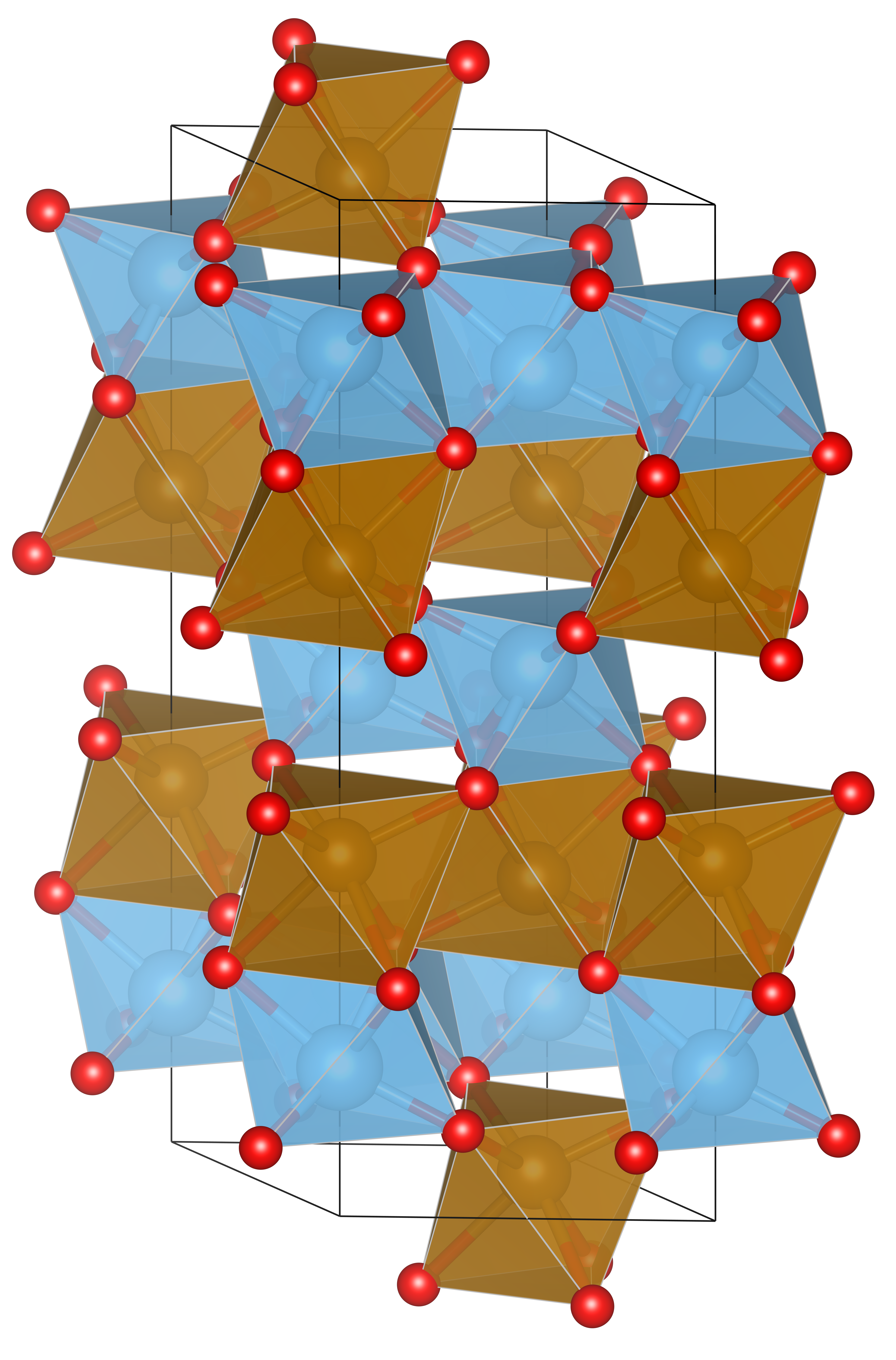 Crystal strucure of ilmenite at 24 °C and 1 atm. Created with VESTA. Source of crystal structure: Barry A. Wechsler, Charles T. Prewitt (1984). "Crystal structure of ilmenite (FeTiO3) at high temperature and at high pressure". American Mineralogist 69: 176–185.